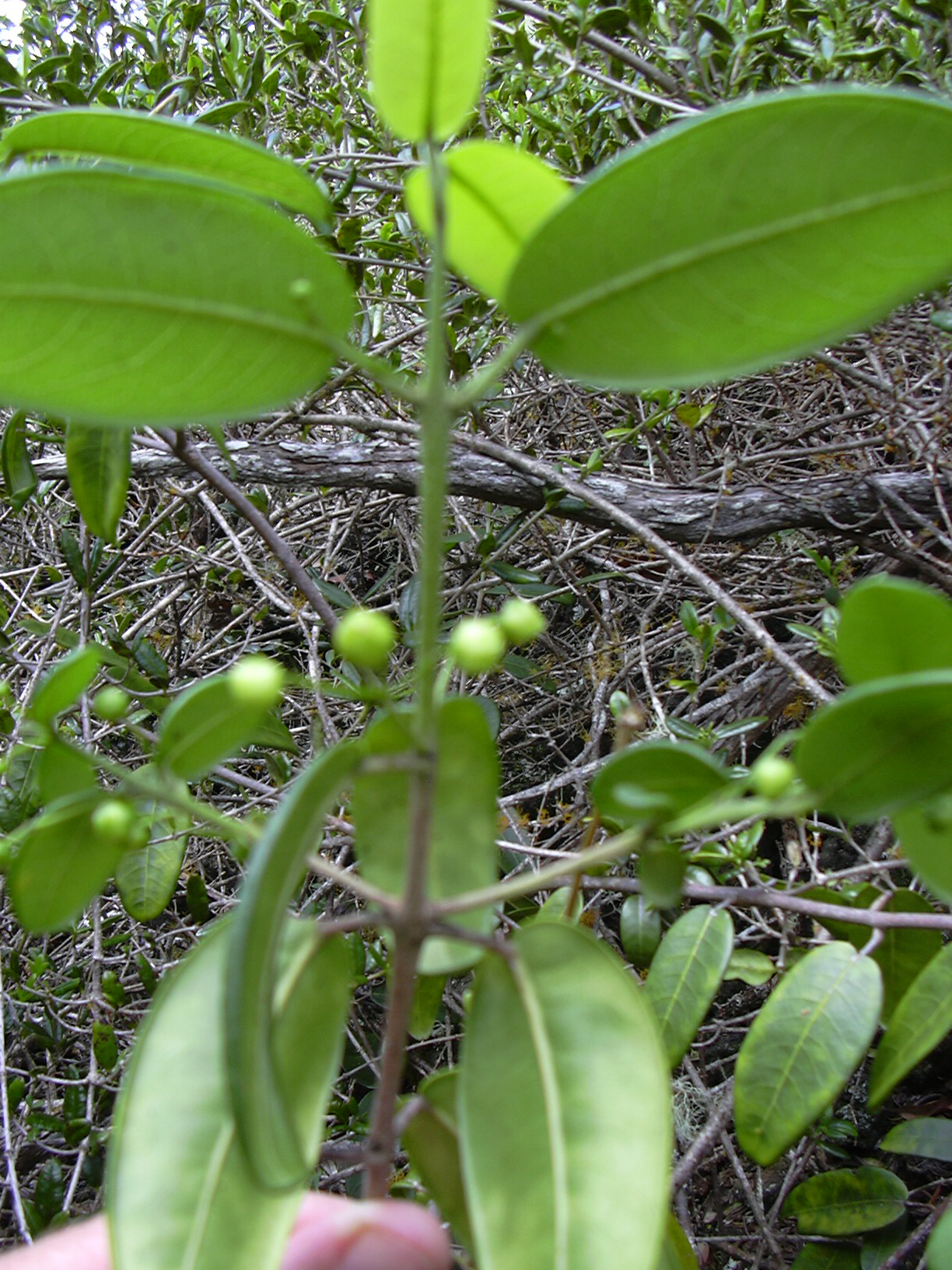 Melicope adscendens (leaves and buds). Location: Maui, Auwahi